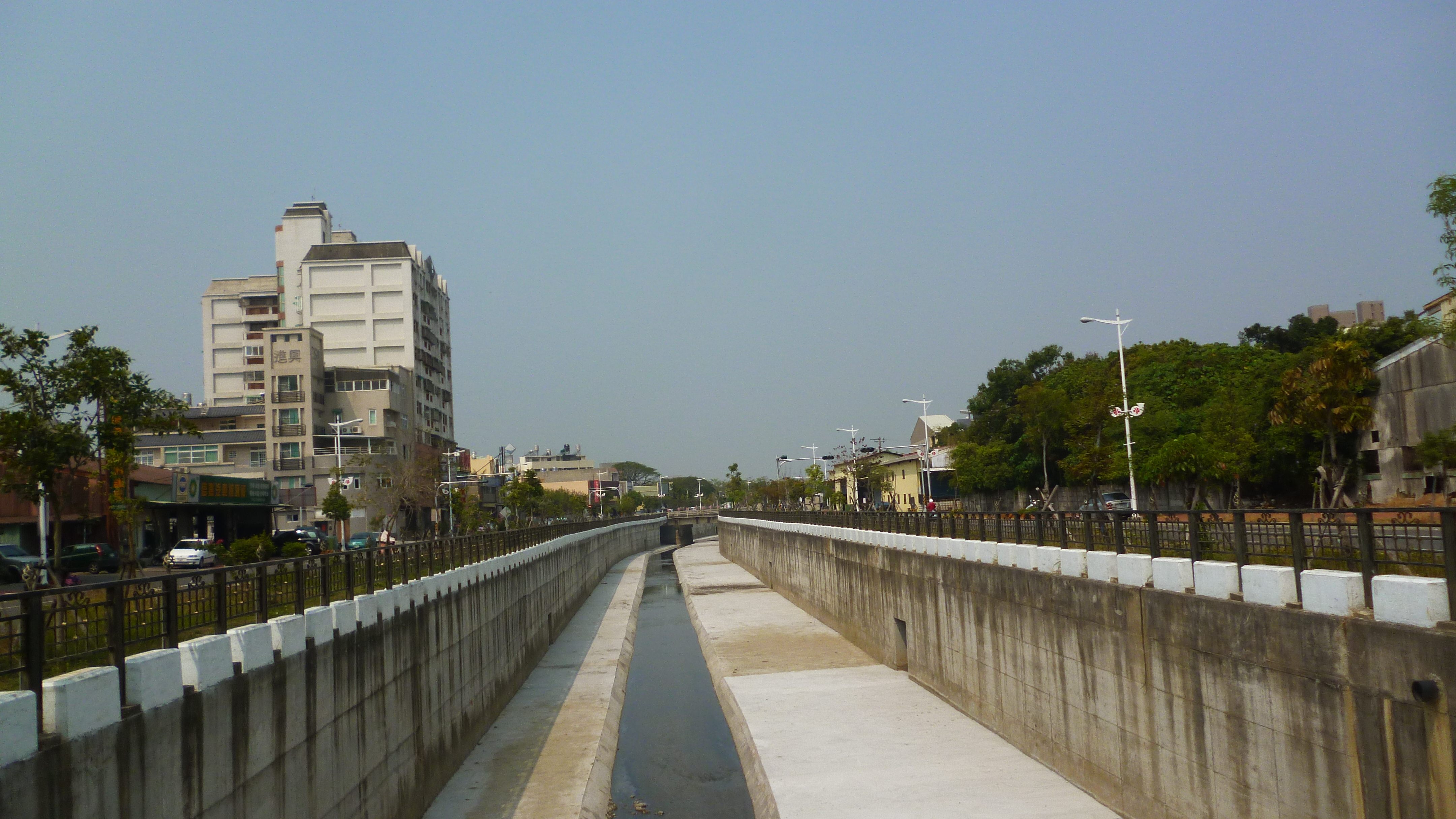 Gong Dao Yi-05